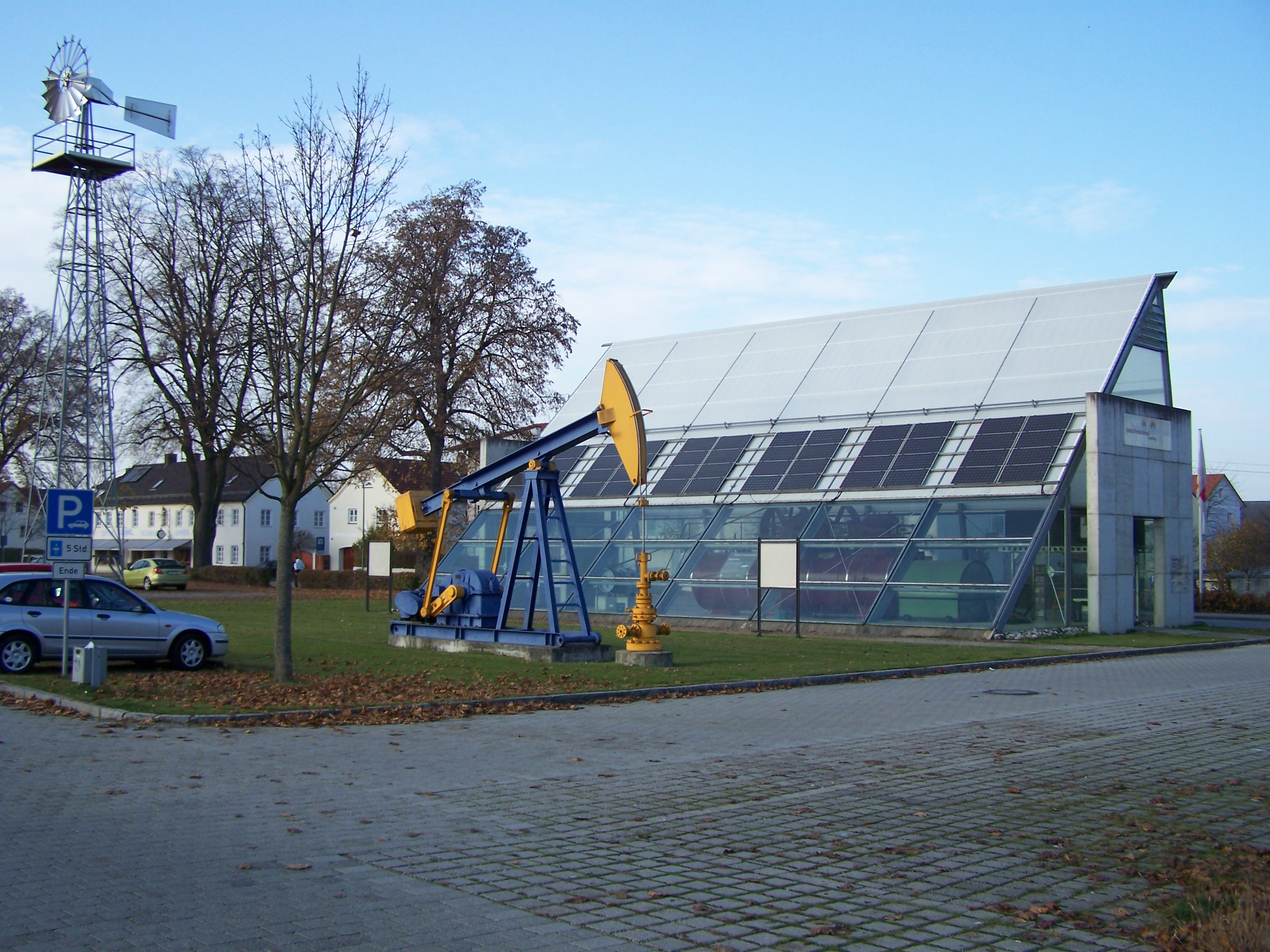 industrial monument in Ampfing